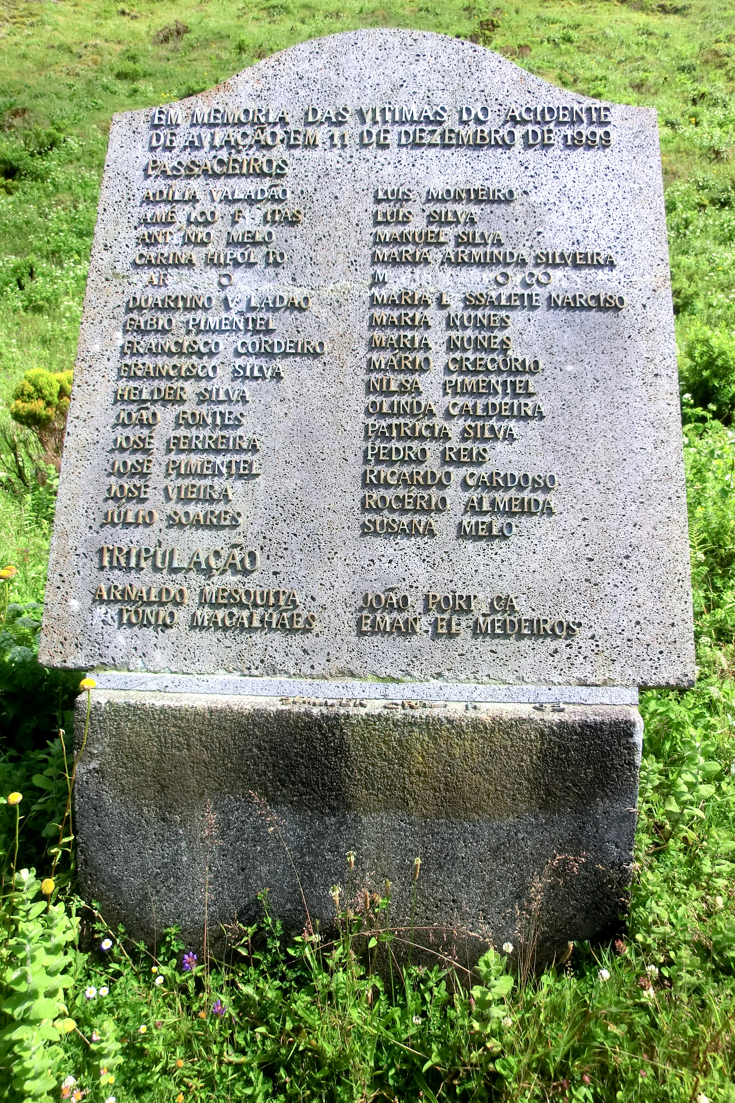 Memorial to the victims of the SATA Air Açores accident on Morro Pelado at December 11, 1999.